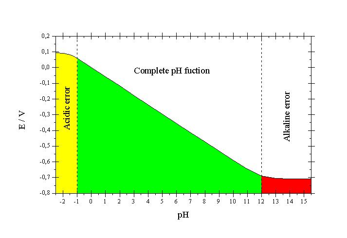 Typical graph of the dependece of pH glass electrode on pH